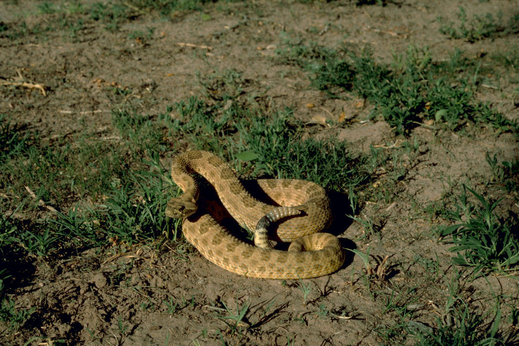 A prairie rattlesnake (Crotalus viridis nuntius) in New Mexico